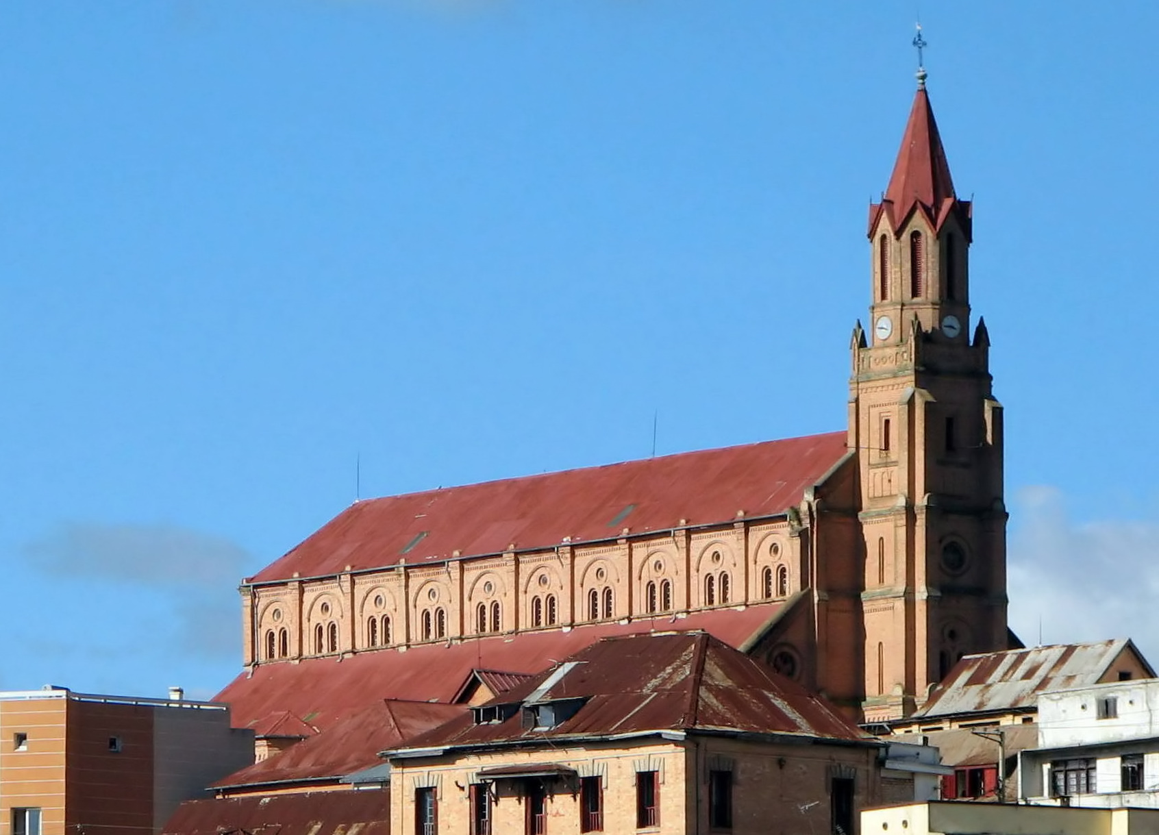 Church in Antananarivo, Madagascar